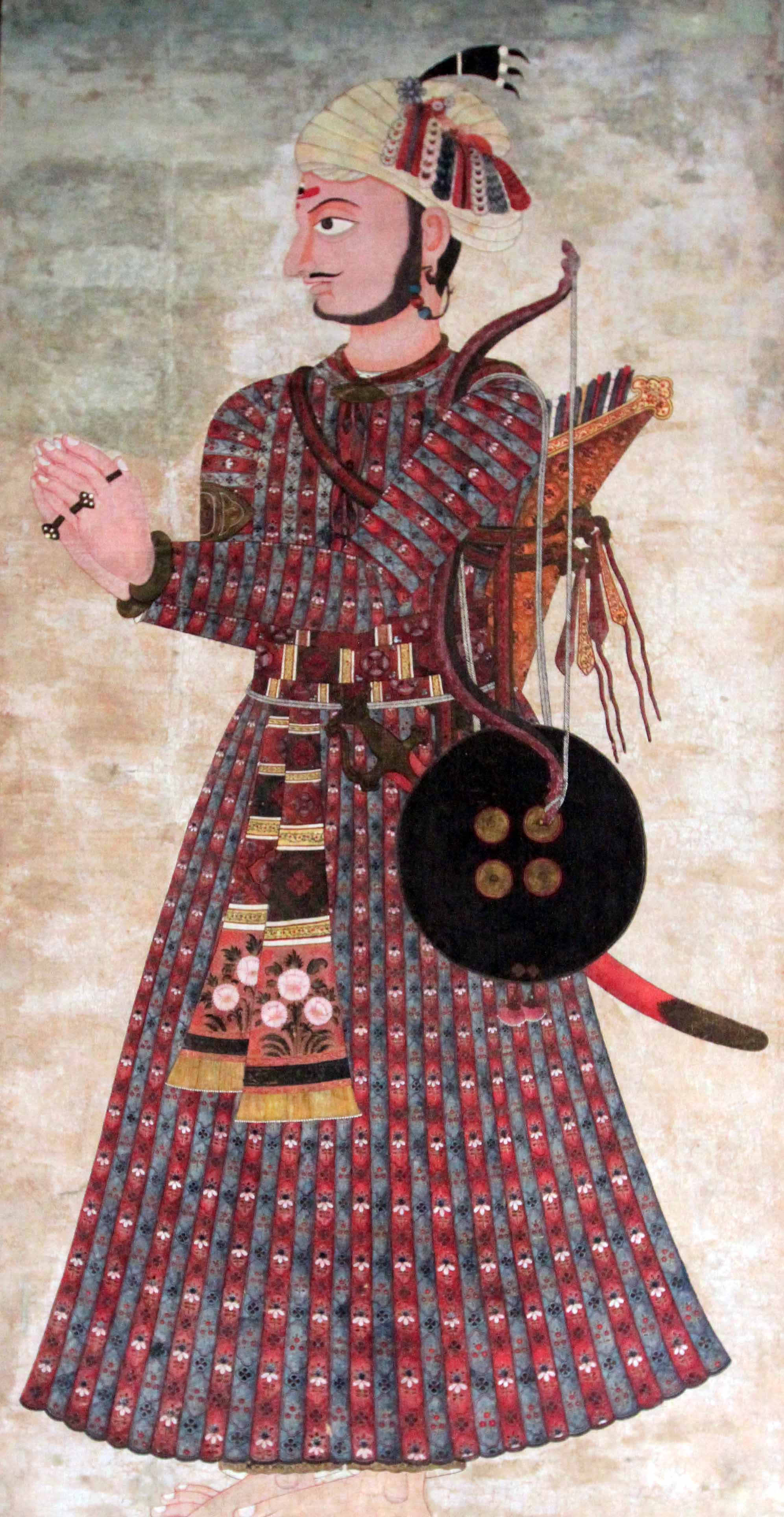 Jayaprakasha Malla